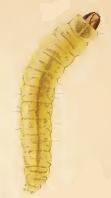 Stainton’s Natural History of the Tineina (1855–1873): Phyllonorycter corylifoliella larva